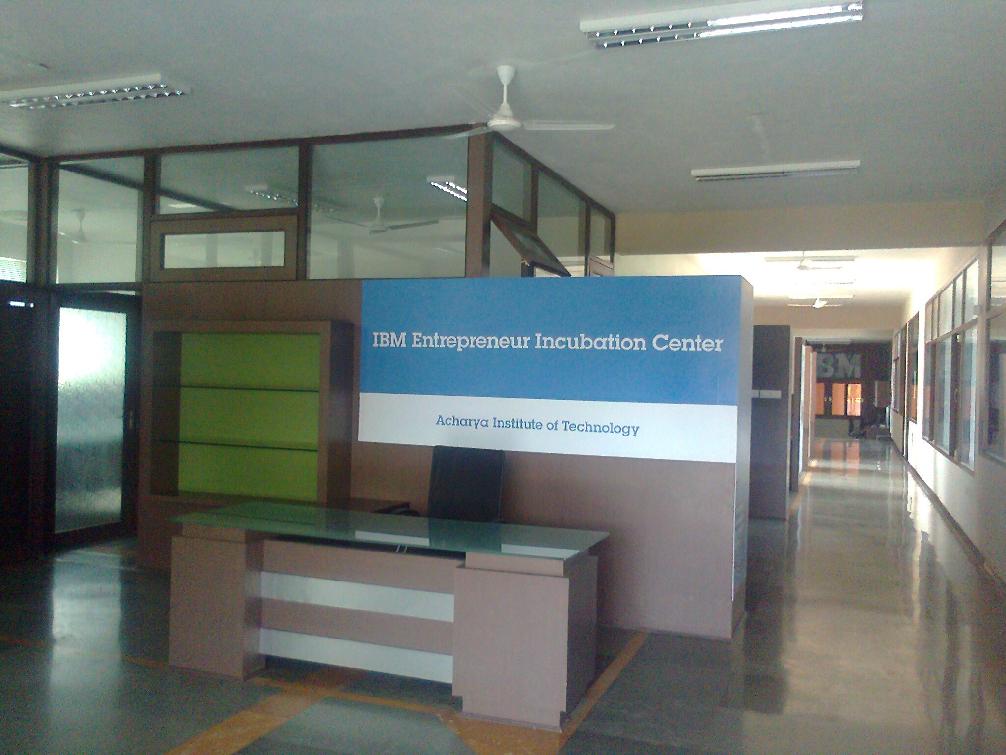 IBM center of excellence